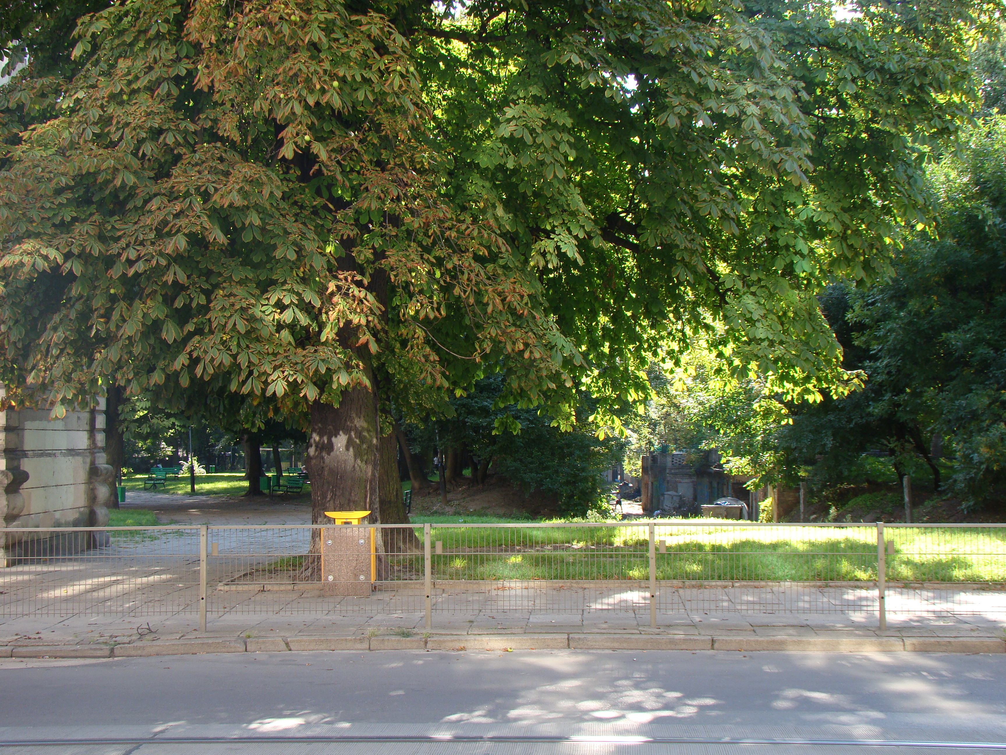 Kilińskiego Street in Łódź